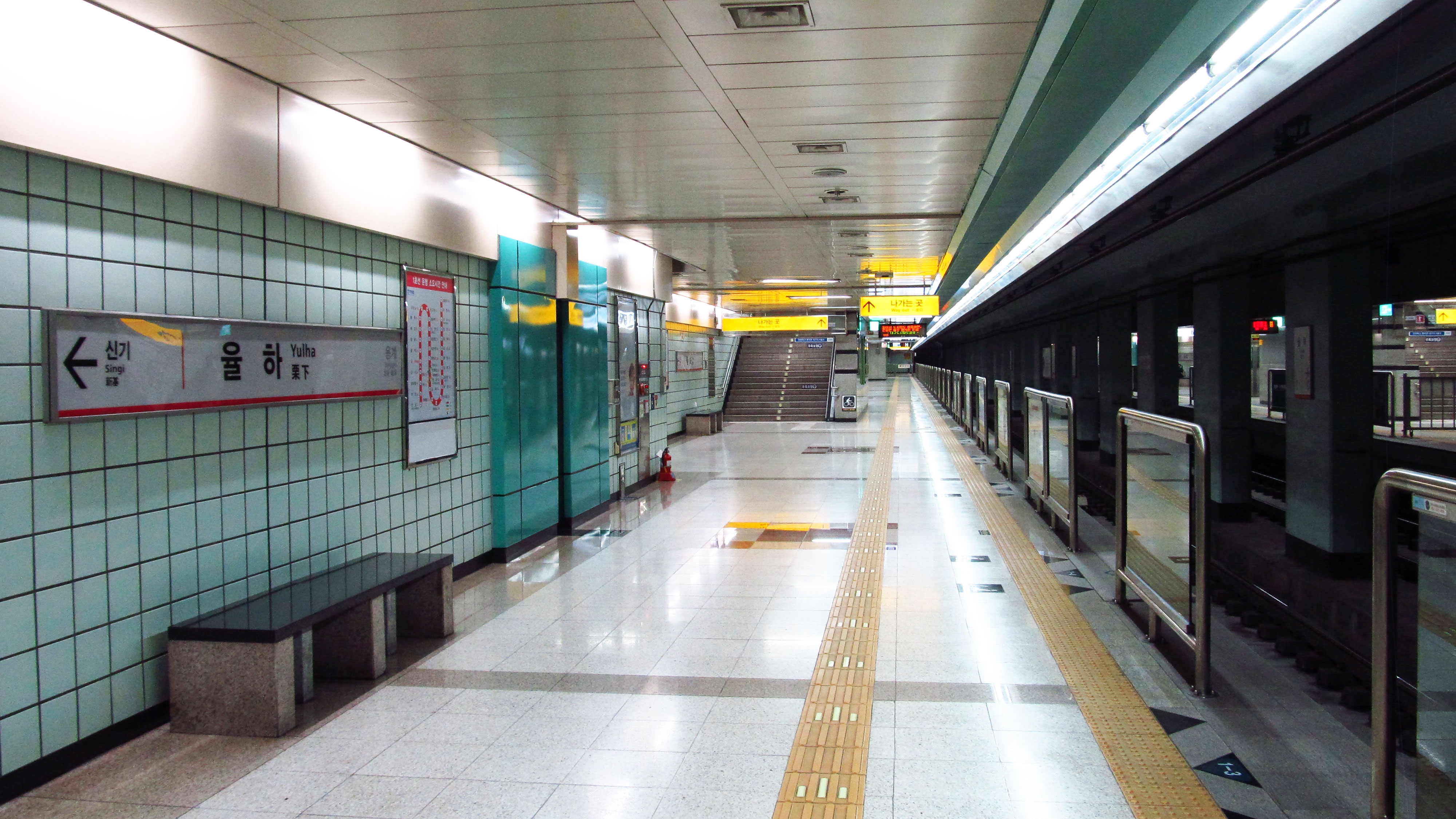 The platform of Yulha Station on the Daegu Metro Line 1, for Singi, Ansim